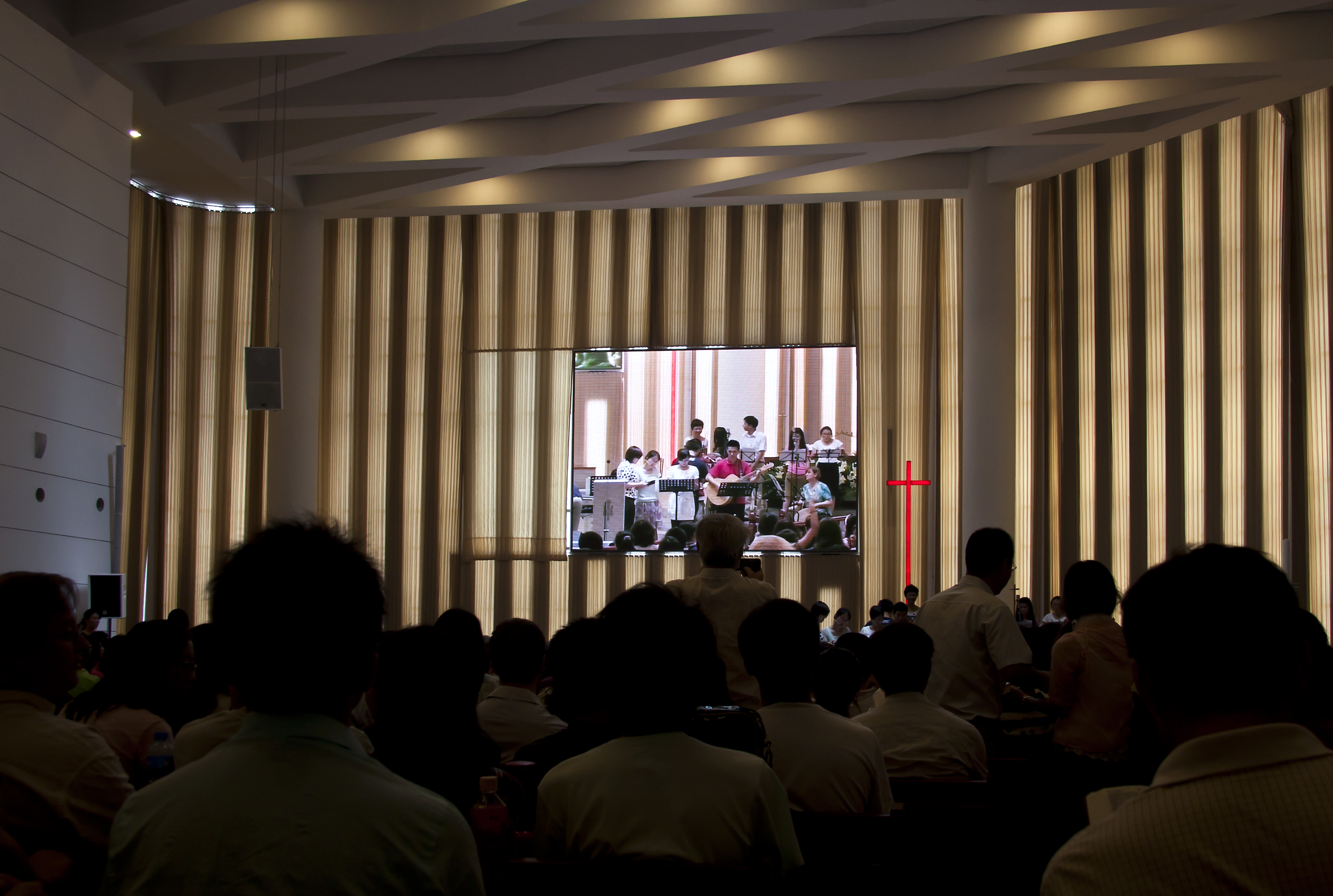 Sunday service about to start at Haidian Christian Church in Beijing, China.